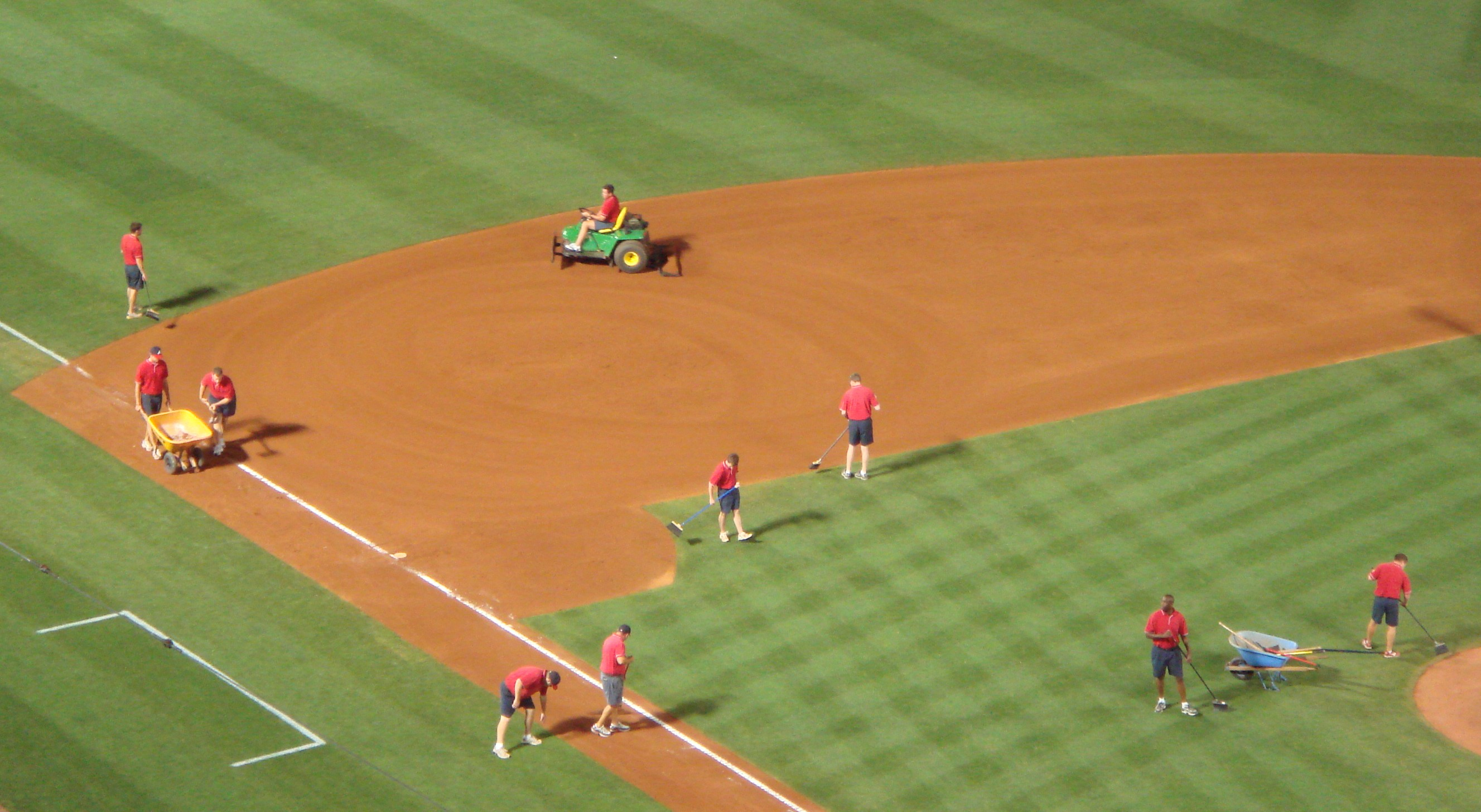 Turner Field / Baseball Field Maintenance and Grooming